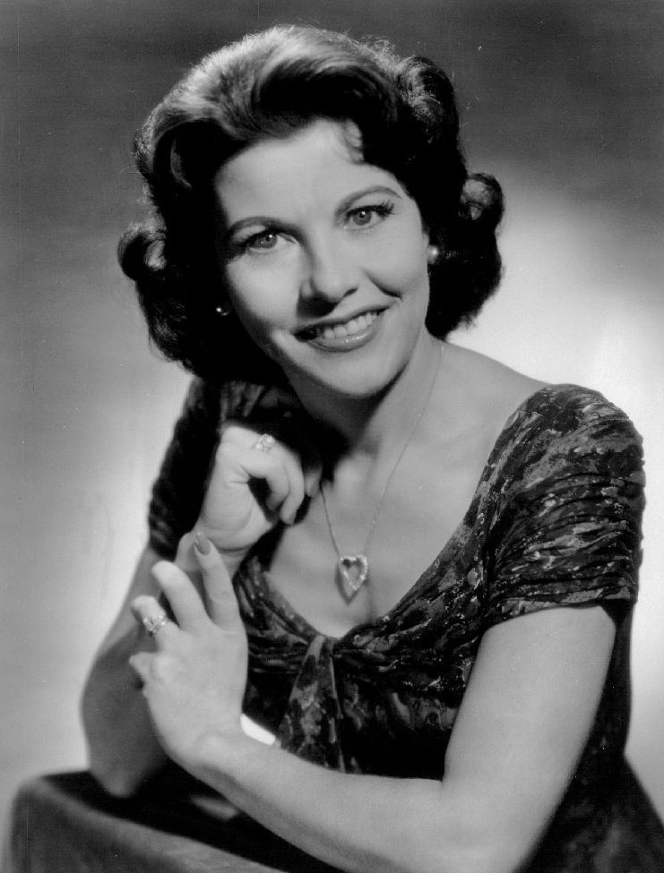 Photo of television hostess Kathi Norris.